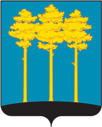 Dimitrovgrad (Ulianovsk oblast), coat of arms